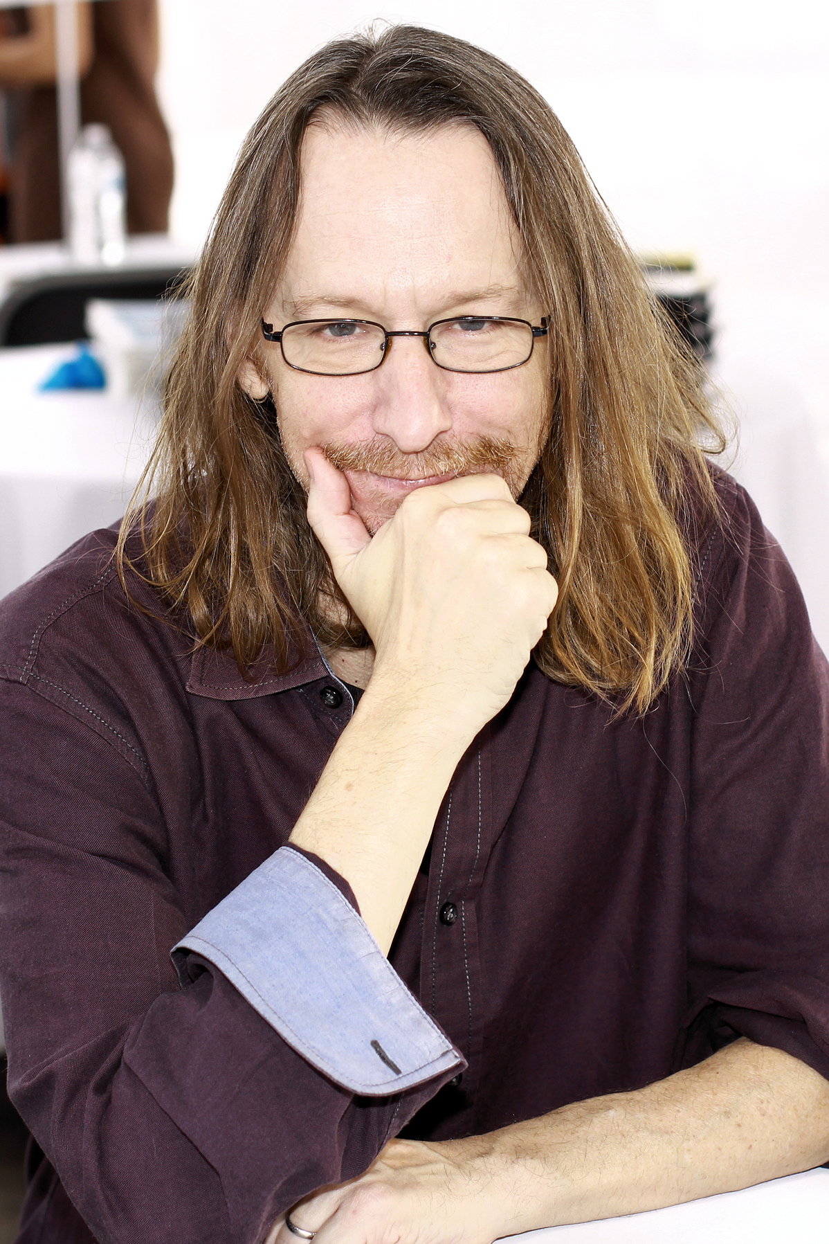 Journalist Rob Walker at the 2019 Texas Book Festival in Austin, Texas, United States.